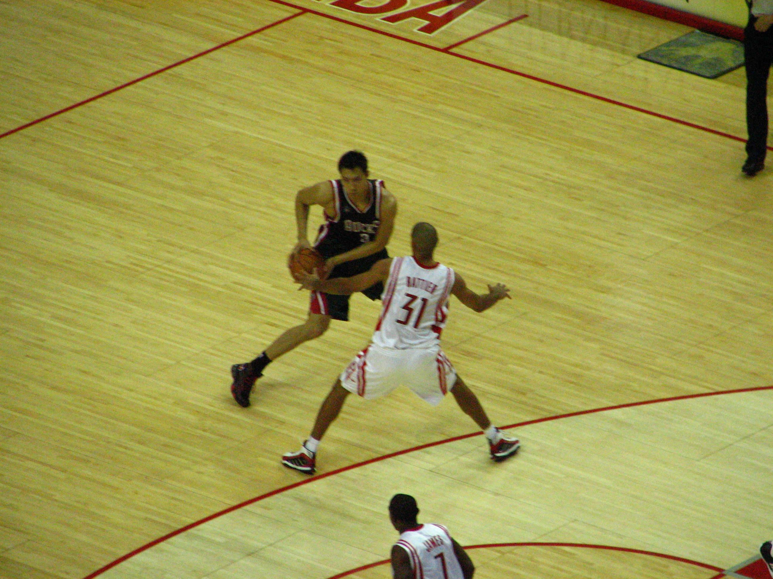 Yi Jianlian of the Milwaukee Bucks playing in the NBA against the Houston Rockets, guarded by Shane Battier